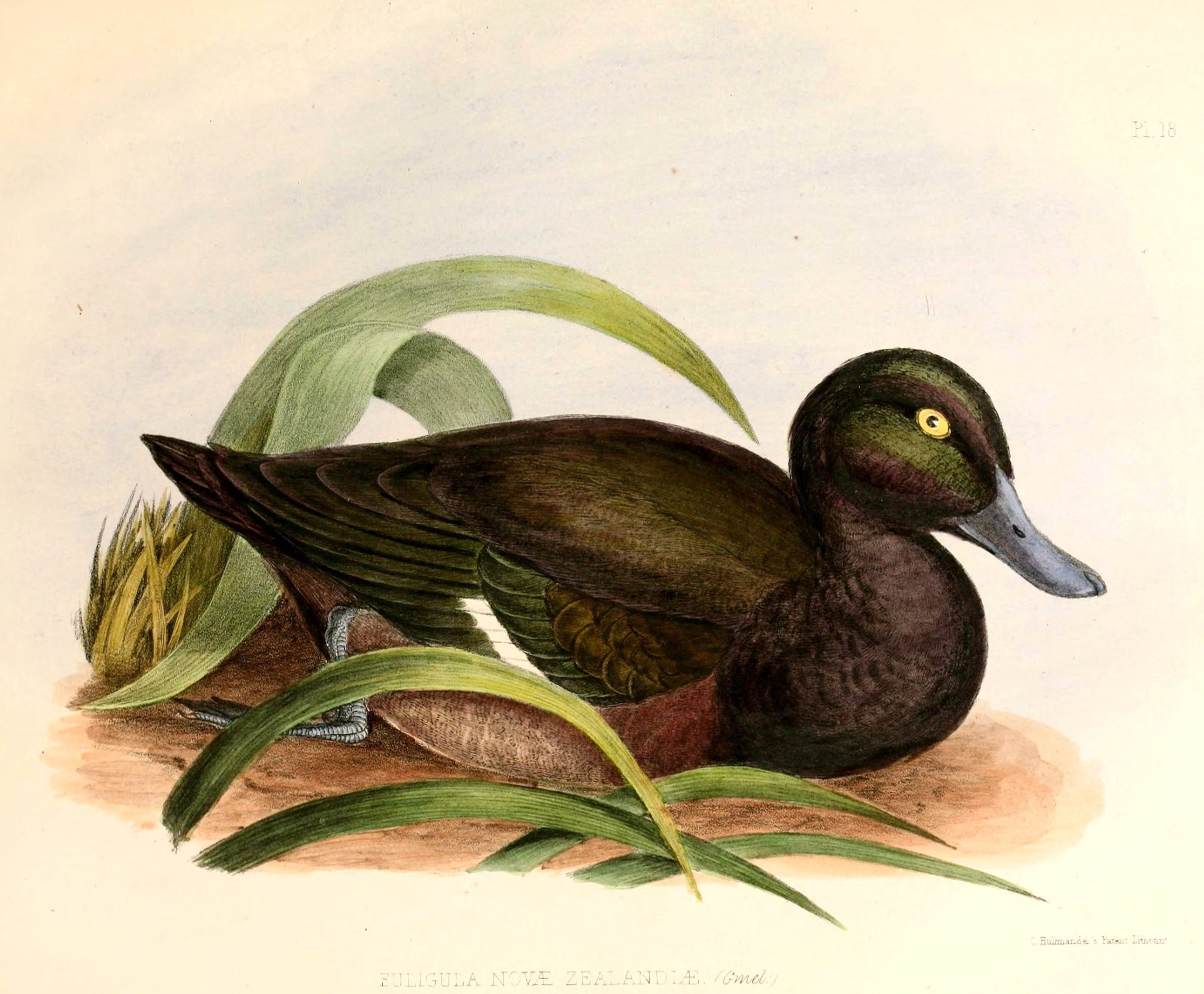 « Fuligula novaezealandiae » = Aythya novaeseelandiae (New Zealand Scaup)